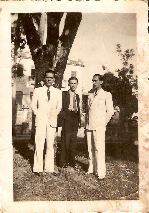 Arquivo Memorial Dr. Romildo Borges Mendes